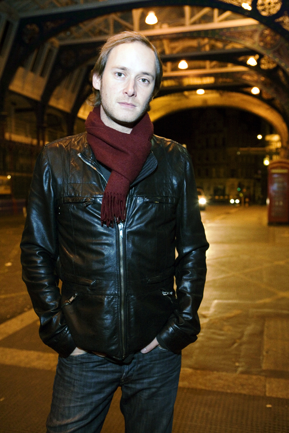 Micheal Mayer